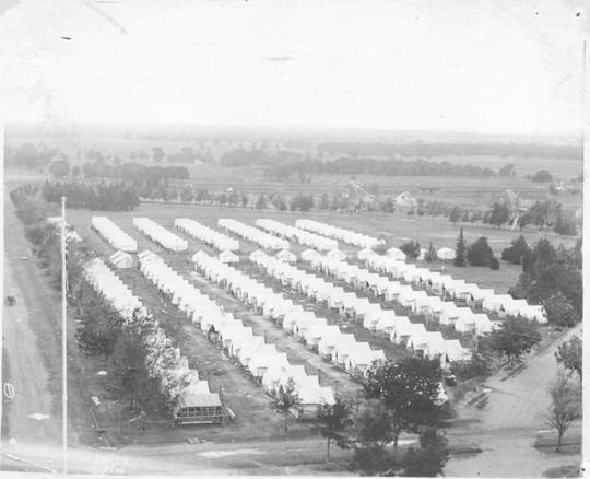 This is a picture of "Tent Row," where students lived at Texas A&M University when the dorms were overcrowded.